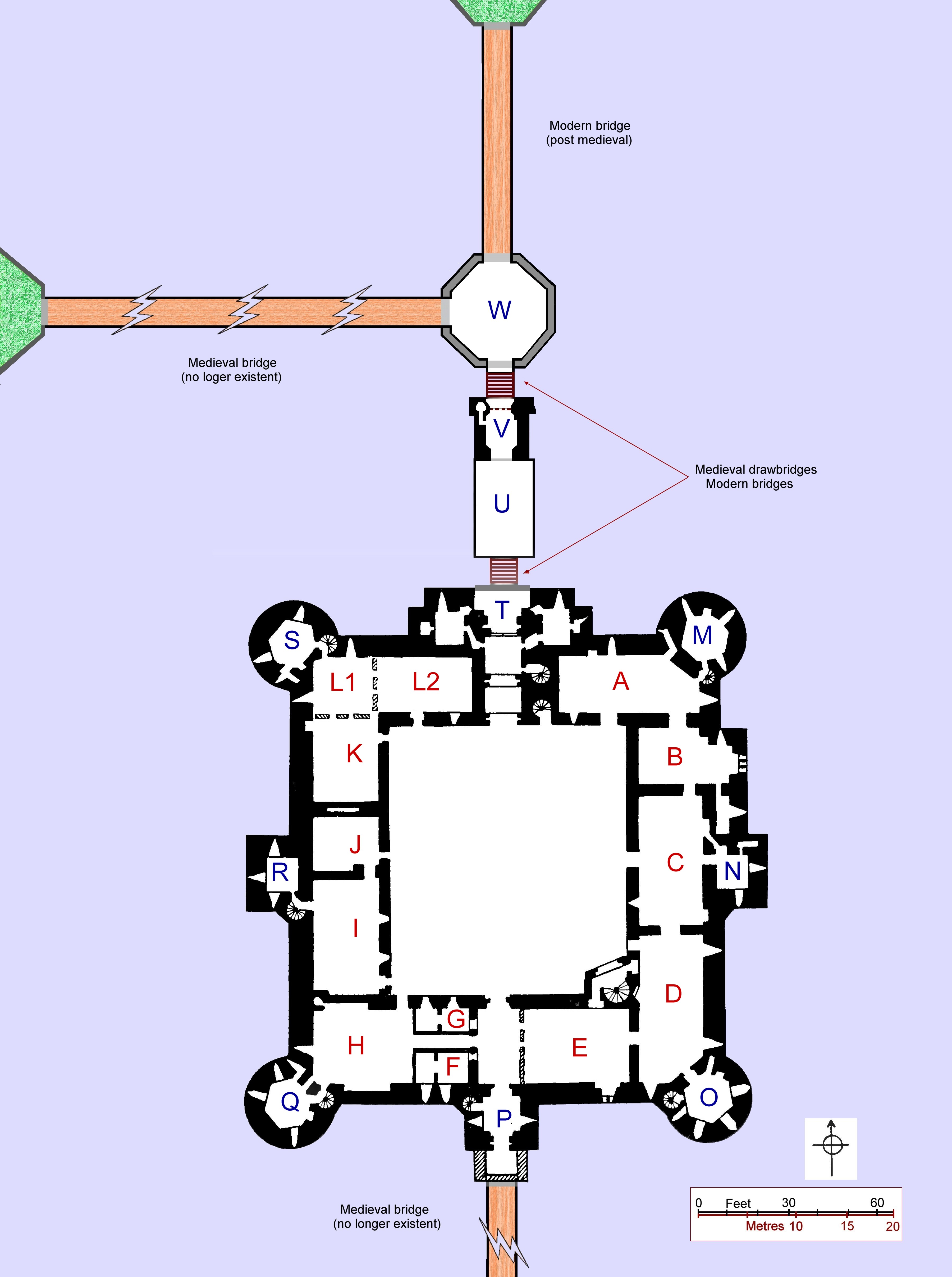 This plan shows a ground plan of Bodiam Castle derived from one published in Archaeological Journal (1905) v62 page 179. But it has been modified to include the outlying works, a scale in metres and lettering to allow for the naming of rooms and structures contained in the plan. The letters correspond to: A. Household apartments B. Chapel C. Chamber D. Great chamber E. Lord's hall F. Buttery G. Pantry H. Kitchen I. Retainer's hall J. Retainer's kitchen K. Possible Ante room (on some plans K, L1 and L2 are shown as one room, on some two and others three) L1. Possible service rooms L2. Possible stables M. North-east tower N. East tower O. South-east tower P. Postern tower Q. South-west tower R. West tower S. North-west tower (and prison) T. Gatehouse (with guard rooms to left and right) U. Inner causeway V. Outer Barbican W. Outer causeway Other sources used to create this plan include: Alison Stones. IMAGES OF MEDIEVAL ART AND ARCHITECTURE BRITAIN: ENGLAND: BODIAM CASTLE.